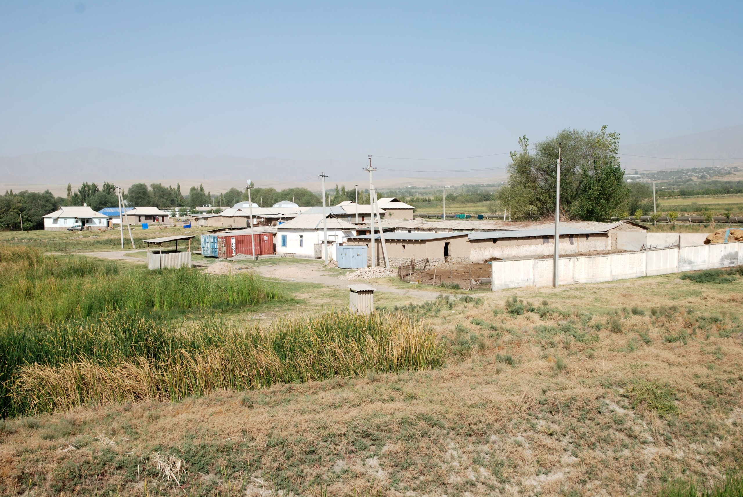 Korez village, 4 km north of Danghara